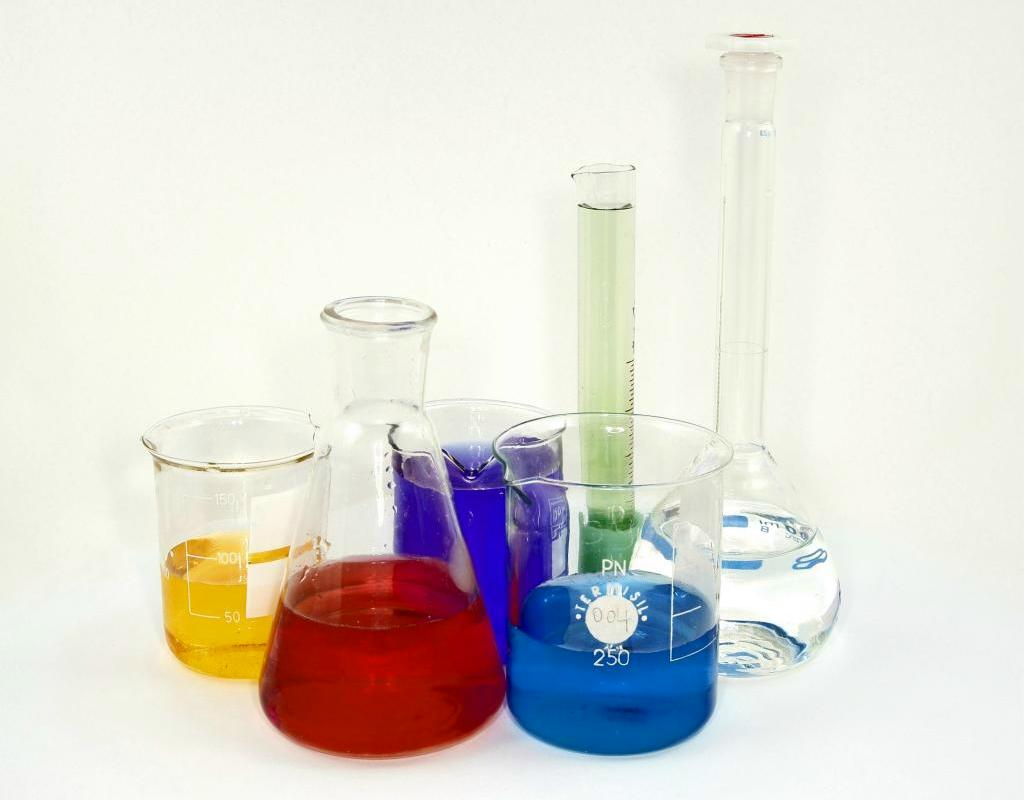 Various laboratory glassware with colorful solutions inside, photographed inside a whitebox